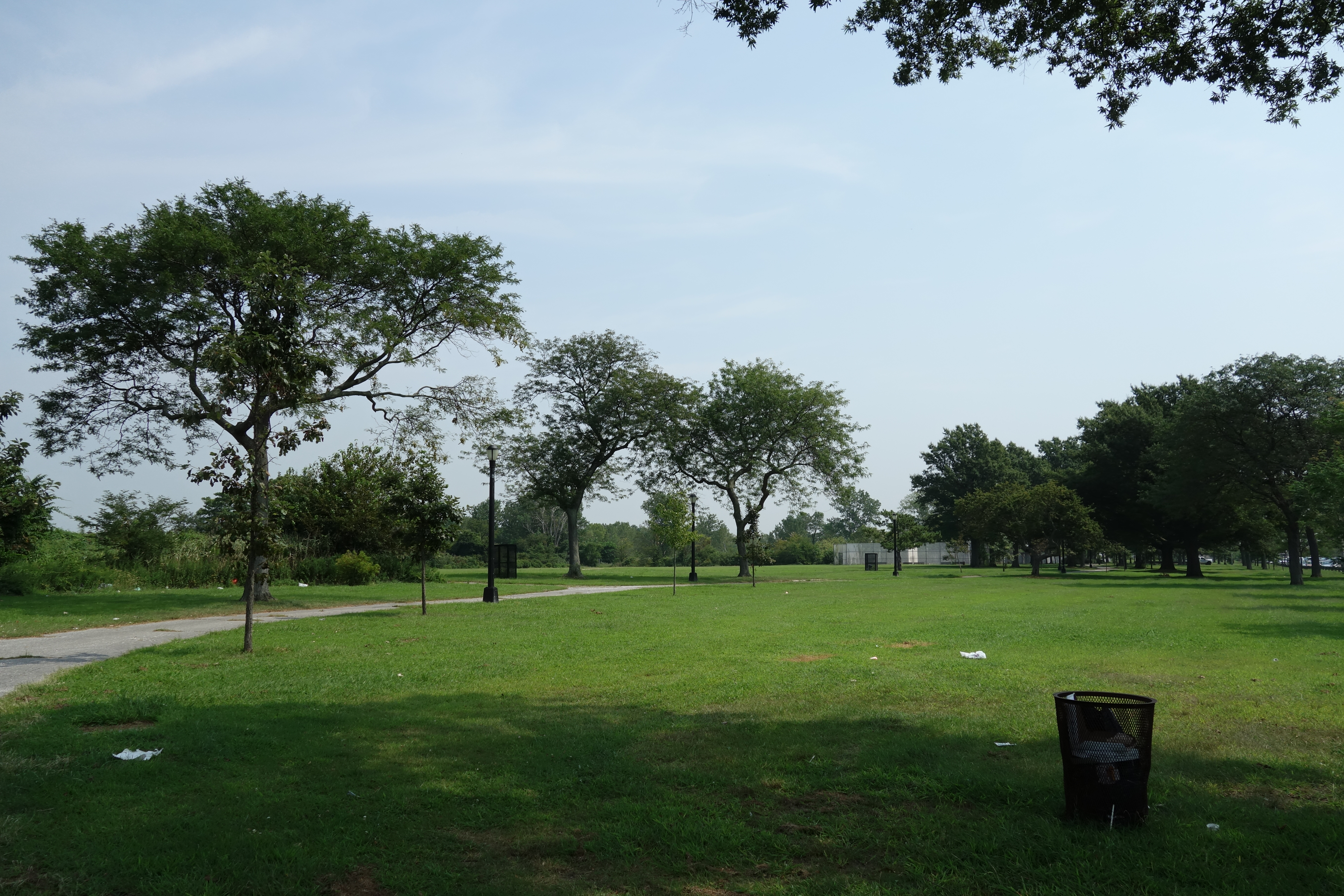 The beautiful but deserted Rockaway Community Park (formerly Edgemere Park), on Almeda Avenue across from the Edgemere Houses in Edgemere, Queens. The park is plagued by an abundance of mosquitoes, due to its location on Jamaica Bay. In fact, a plague is the best way to describe the immediate attack of mosquitoes upon entrance into the park. Looking east.